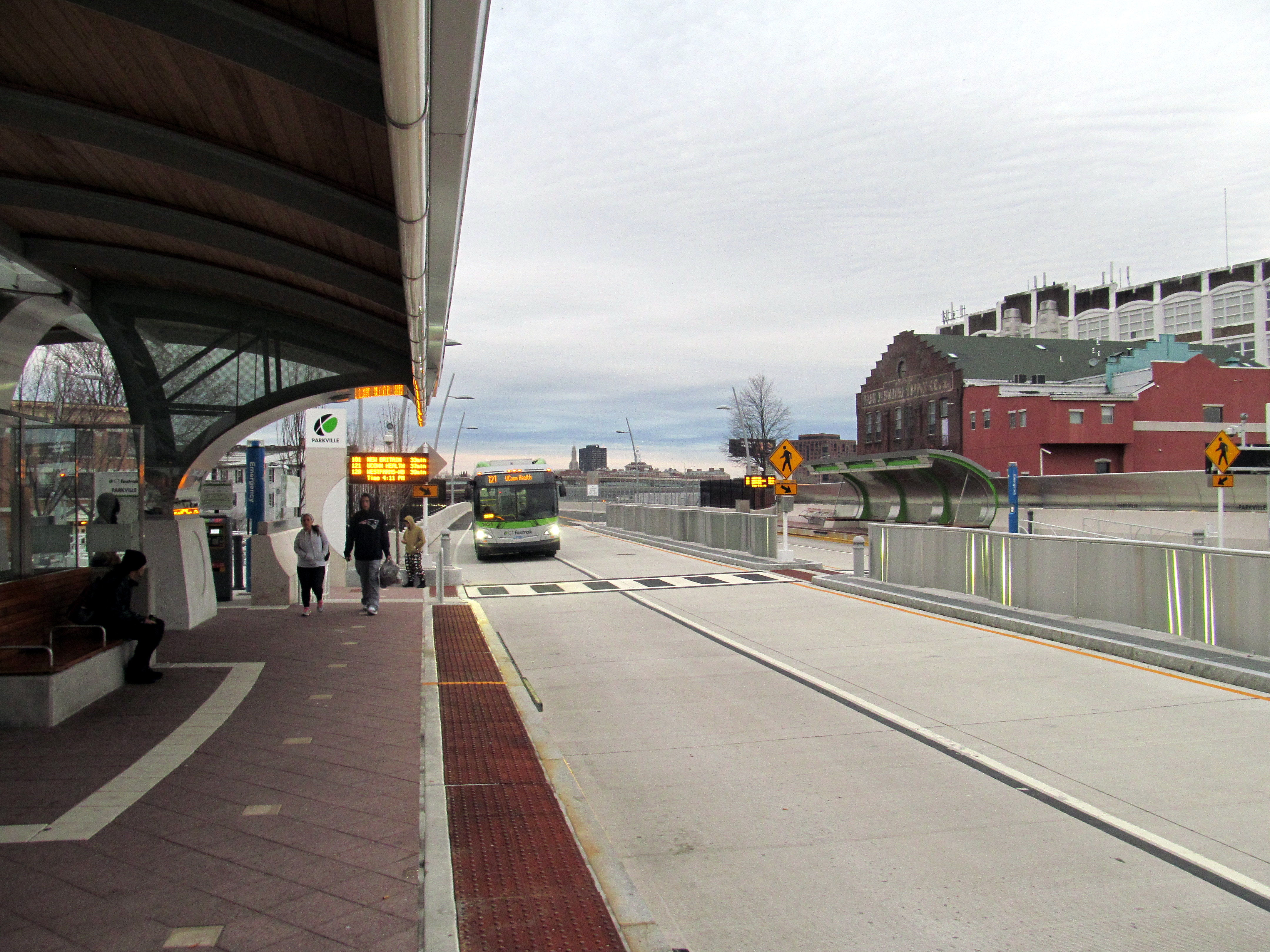 A southbound route 121 bus arrives at Parkville CTfastrak station in December 2015